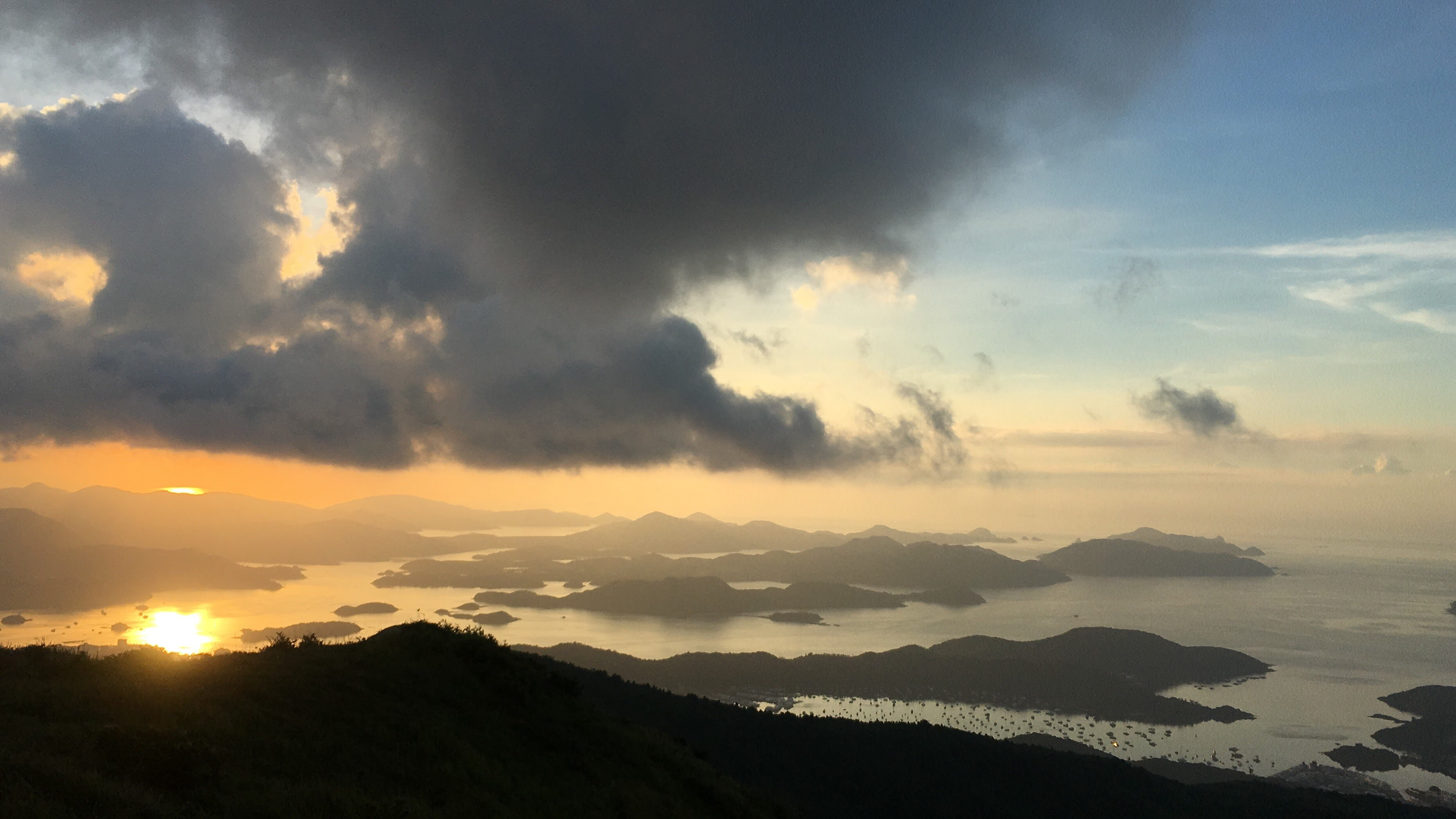 It is the view from the peak of West Buffalo Hill, located in Shatin, Hong Kong, originally released on by myself.